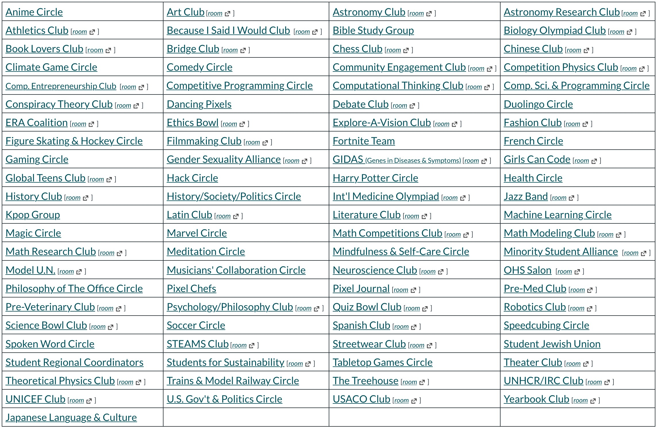 Depicts a list of all the clubs and circles in Stanford University Online High School during the 2019-20 school year.